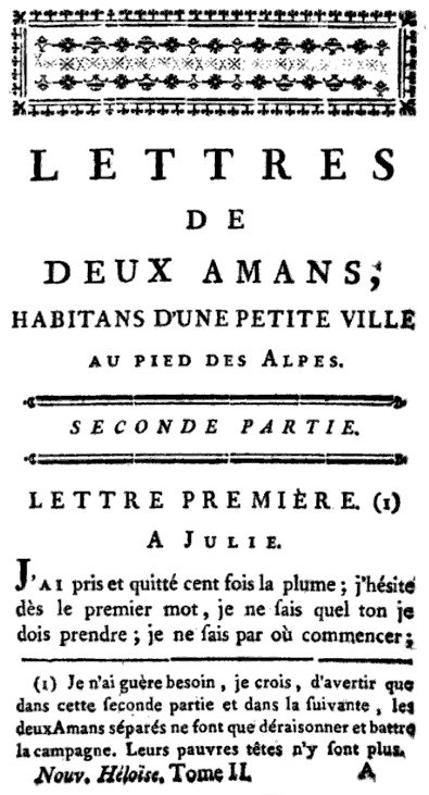 Title page Julie, or the New Heloise by Jean-Jacques Rousseau ((1712-1778)